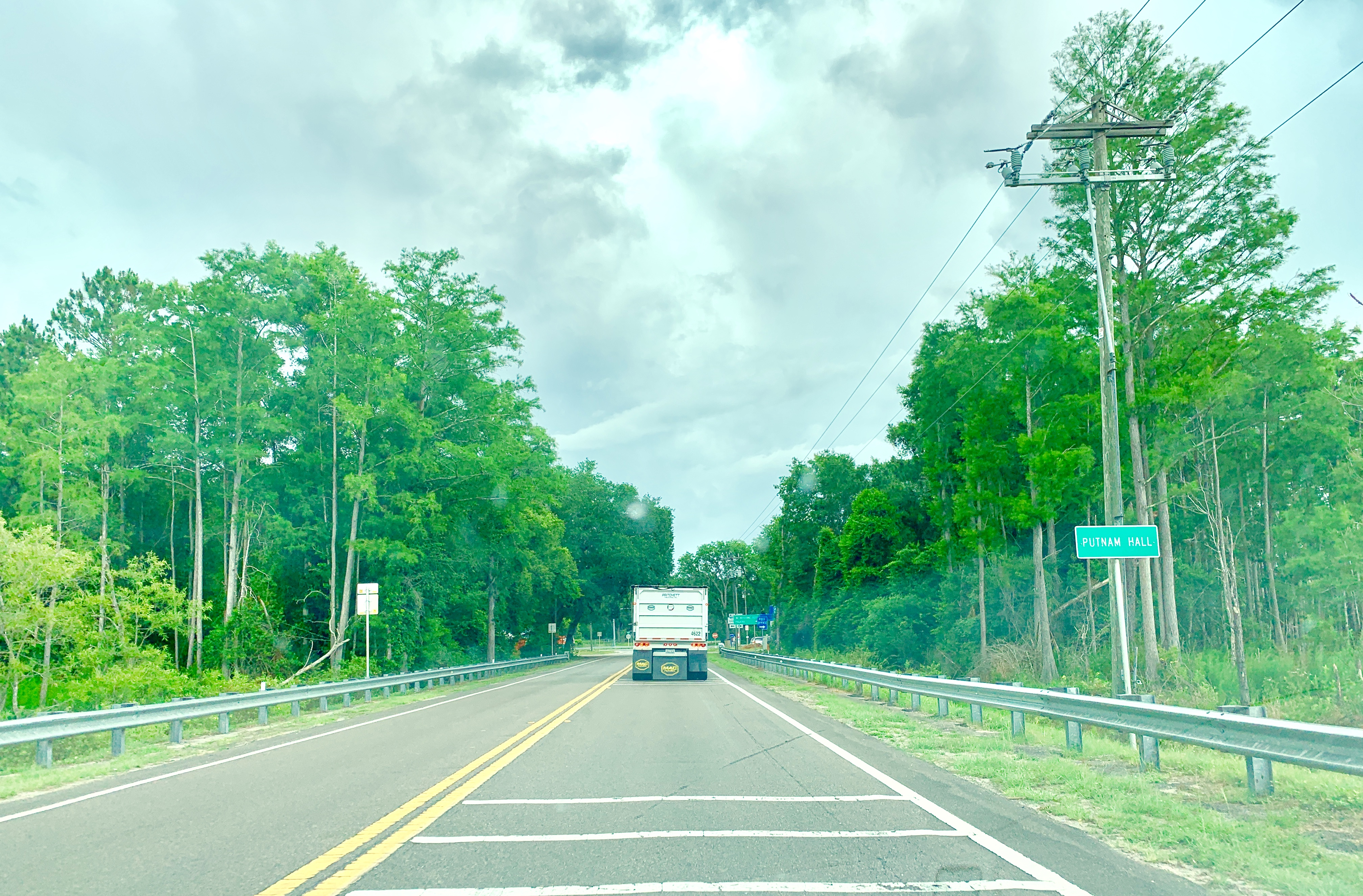 Putnam Hall